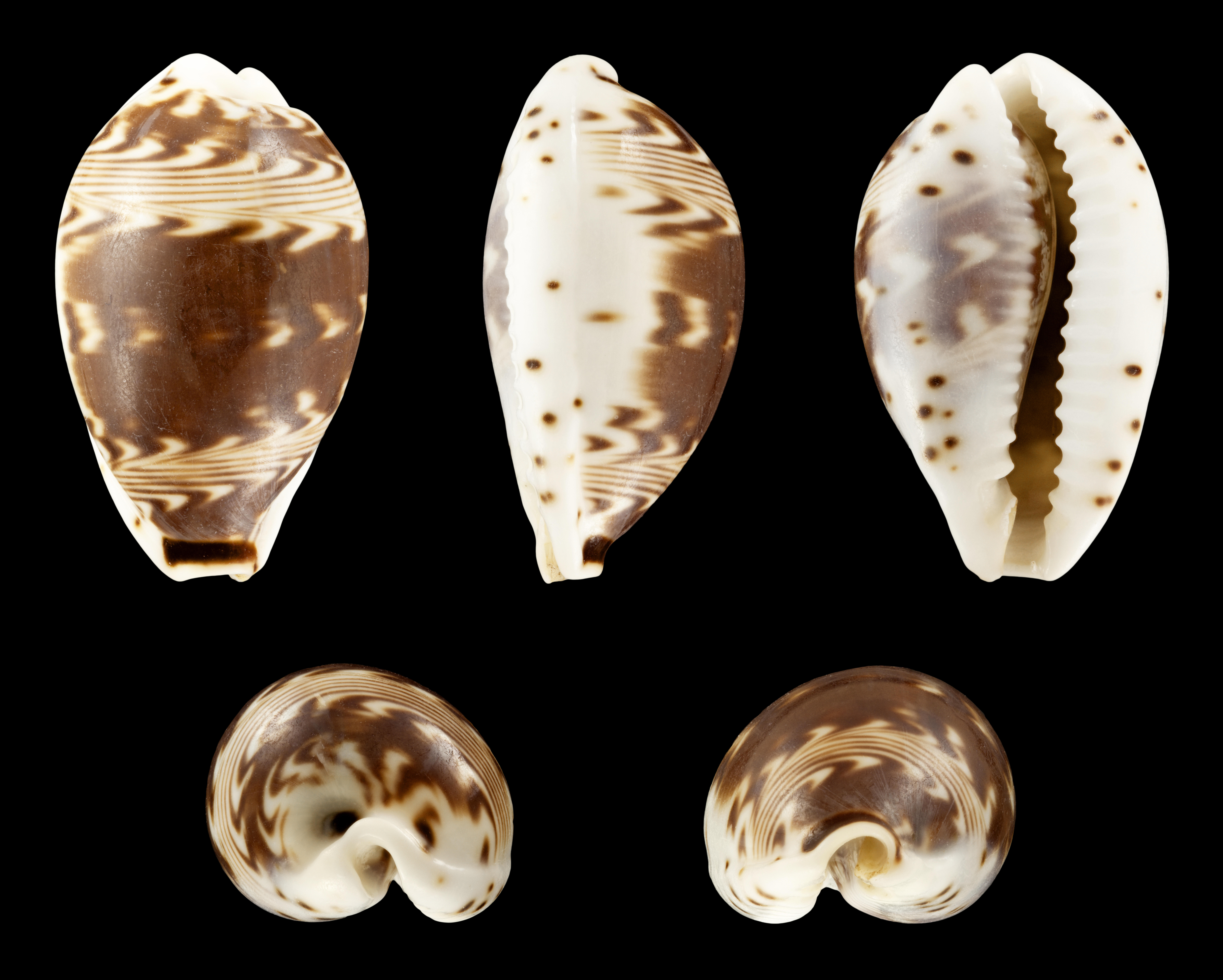 Palmadusta diluculum diluculum Deshayes, 1864, Daybreak Cowry; Length 2.4 cm; Originating from Zanzibar. Shell of own collection, therefore not geocoded.